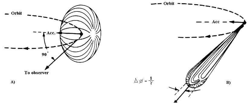 synchrotron radiation energy flux